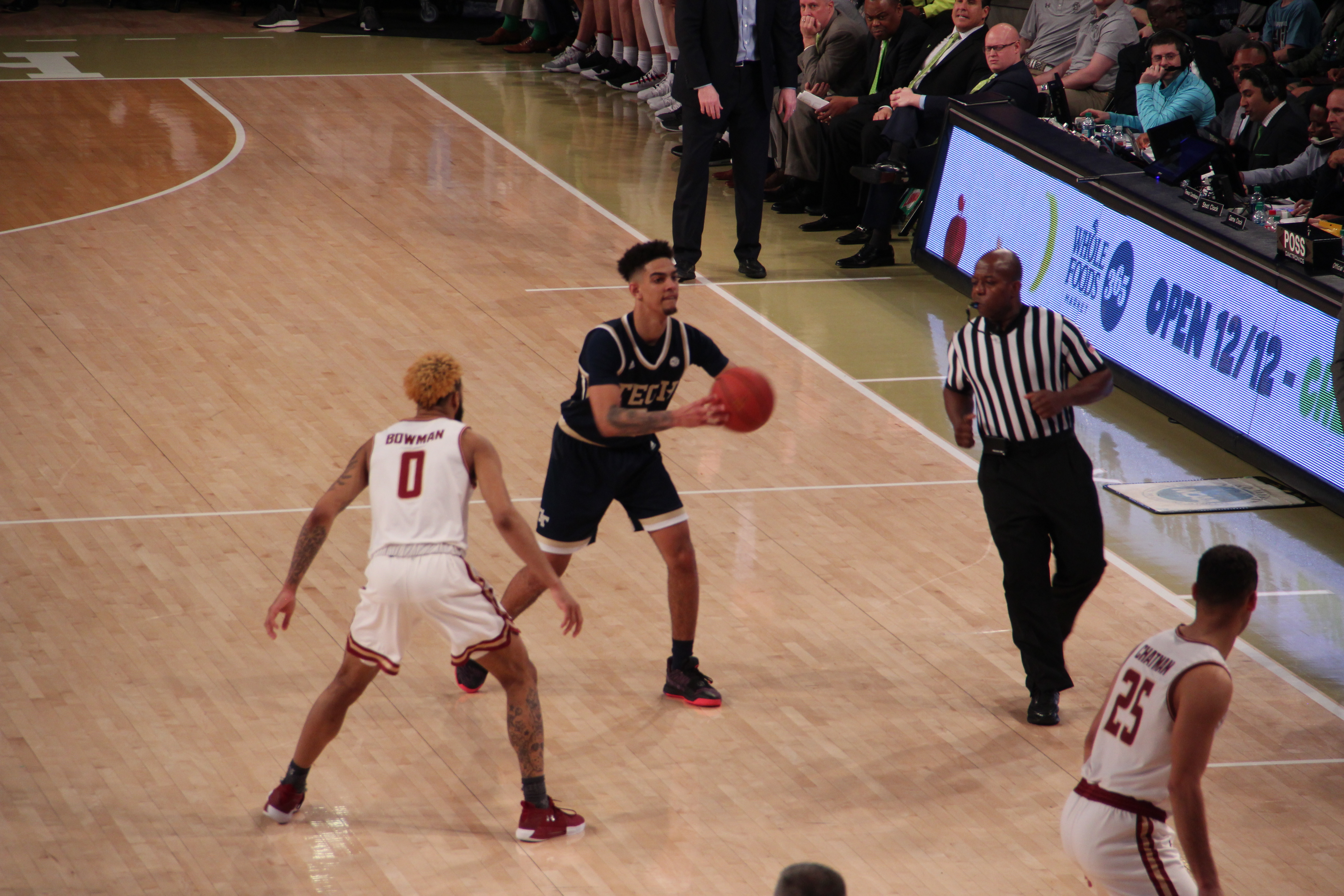 Georgia Tech Yellow Jackets vs. Boston College Eagles, March 3, 2019 (men's basketball)